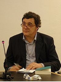 Photograph taken by me to Ennio Foppiani. The photo was taken at the 23rd Turin International Book Fair, May 15, 2009. The copyright holder grants anyone the right to use, modify and reproduce this work for any purpose for any purpose, without any conditions, unless such use does not conflict with local laws.